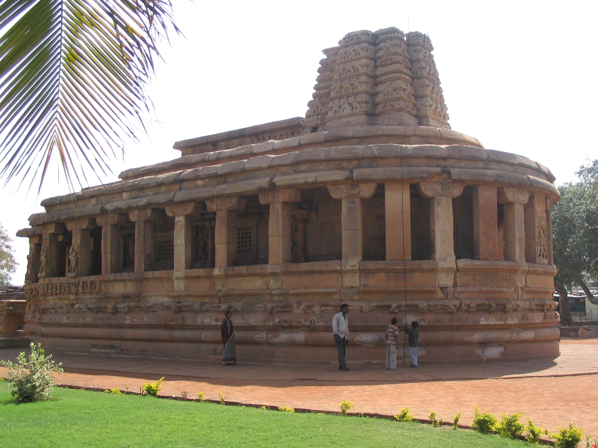 Durga Temple (7th century) at Aihole, Karnataka, India I clicked this picture from my legally bought digital camera. I hold no copyright and this is not a picture from some website in internet